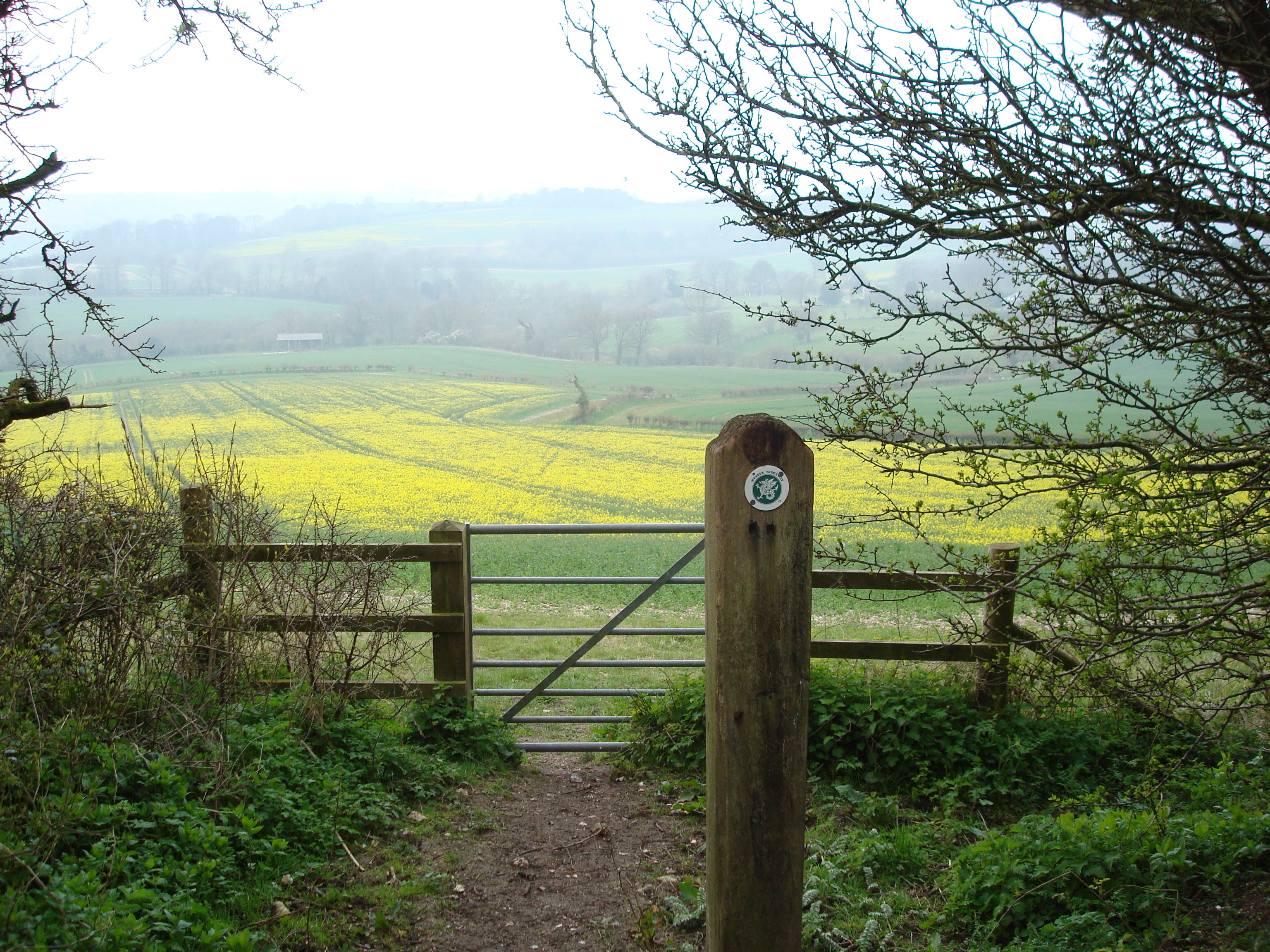 Wessex Ridgeway near Minterne Magna. S Knights, my photo, April 2008